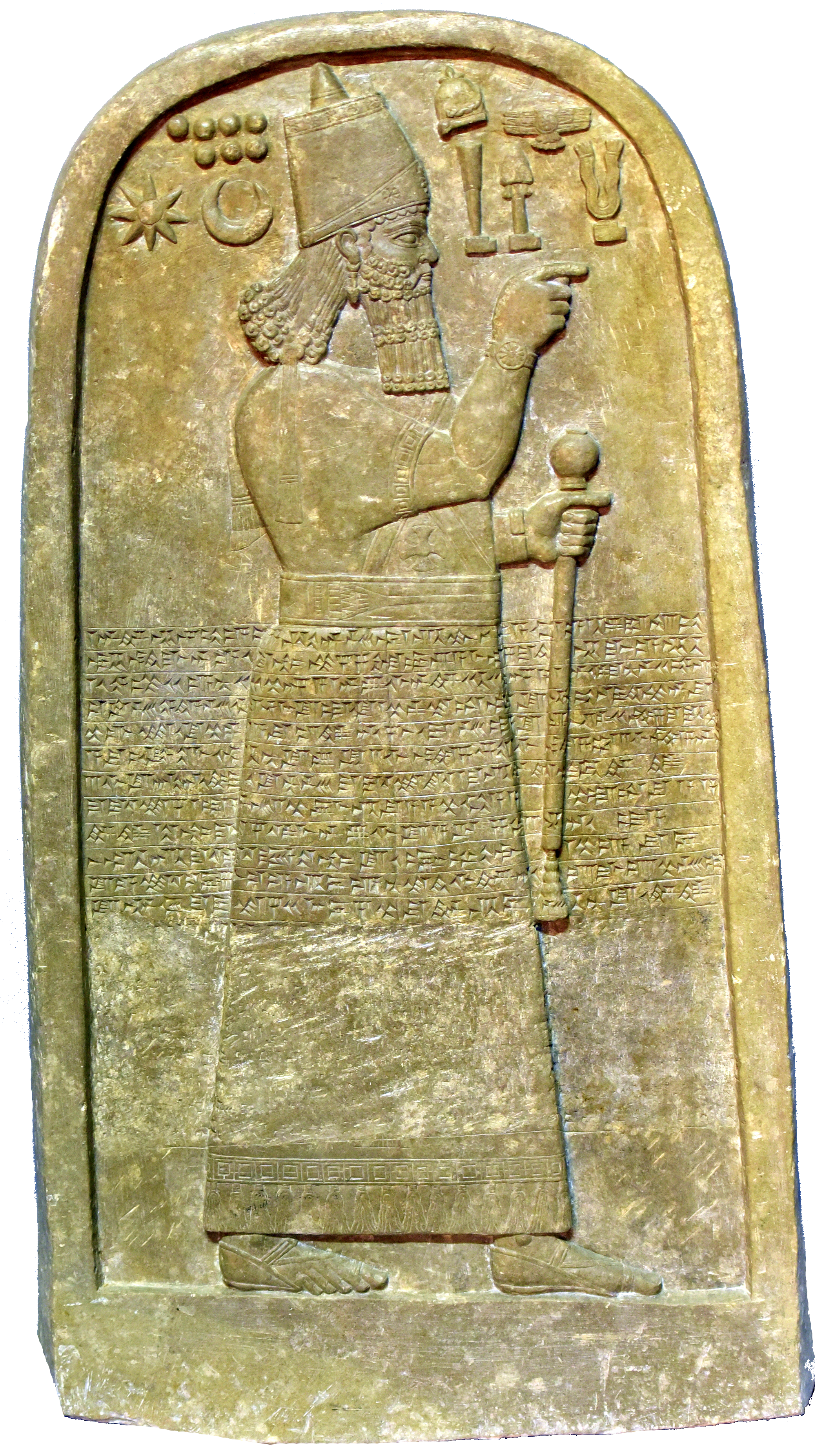 The so-called Tell al Riman stele of Adad-nirari III. This "Mosul marble" stele depicts the Assyrian king Adad-Nirari III (reigned 810-783 BCE) praying before gods and goddesses symbols (Ishtar, Sin, Sibitti, Nabu, Marduk, Adad, Anu, and Assur). The cuneiform inscriptions mention the king's titles and military campaigns. The name of Jehoash the Samarian was mentioned, who paid tribute to the king. From Tell al Rimah, in modern-day Nineveh Governorate, Iraq. On display at the Iraq Museum in Baghdad, Republic of Iraq.